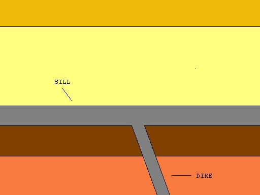 A representation of the difference between a dike and a sill, intruded into stratified country rock.